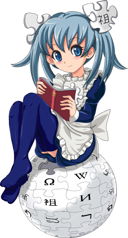 drawing of Wikipe-tan sitting on the Wikipedia globe.